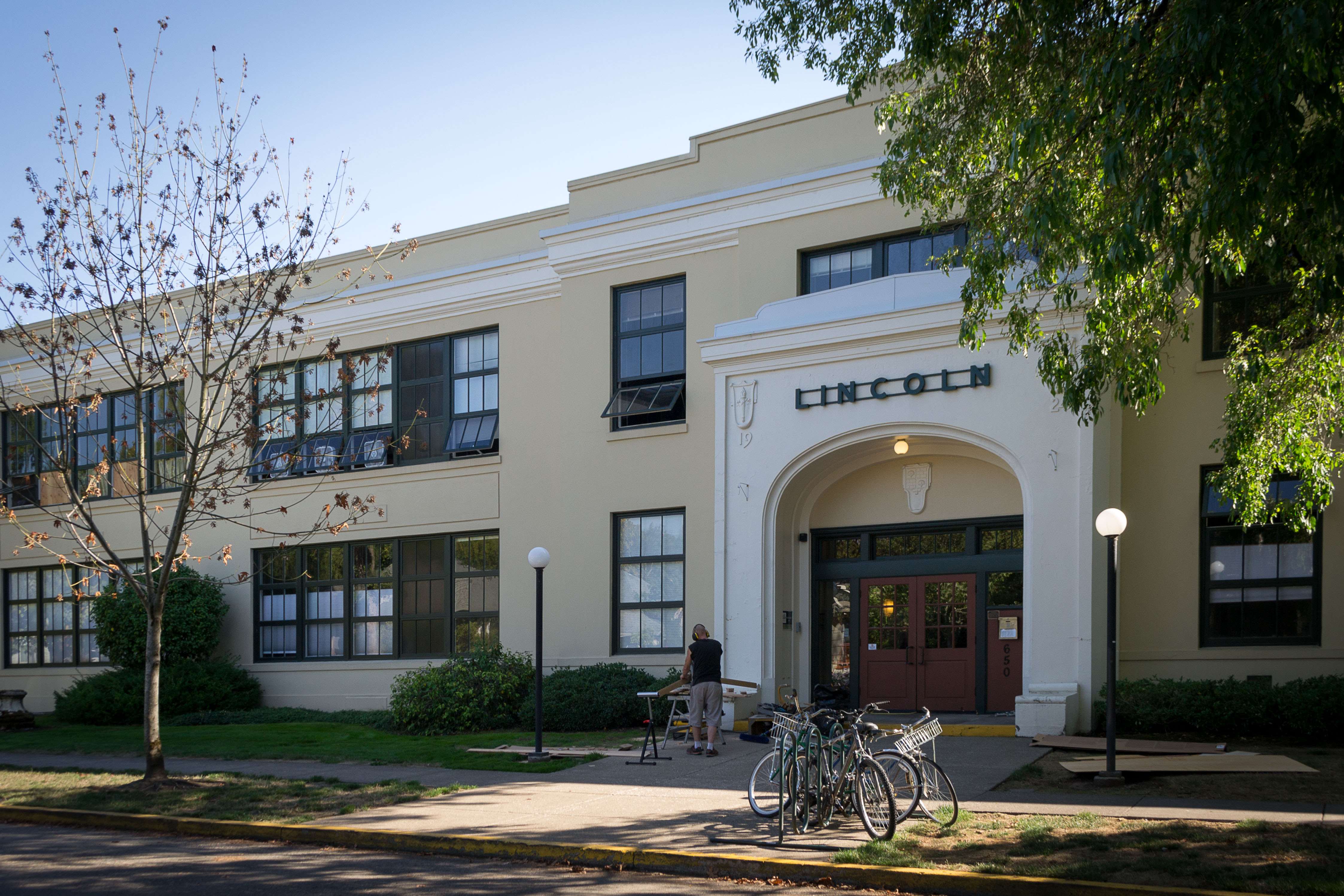 Designed by Frederick Manson White as Woodrow Wilson School, the building was renamed Lincoln School Condominiums in Eugene, Oregon